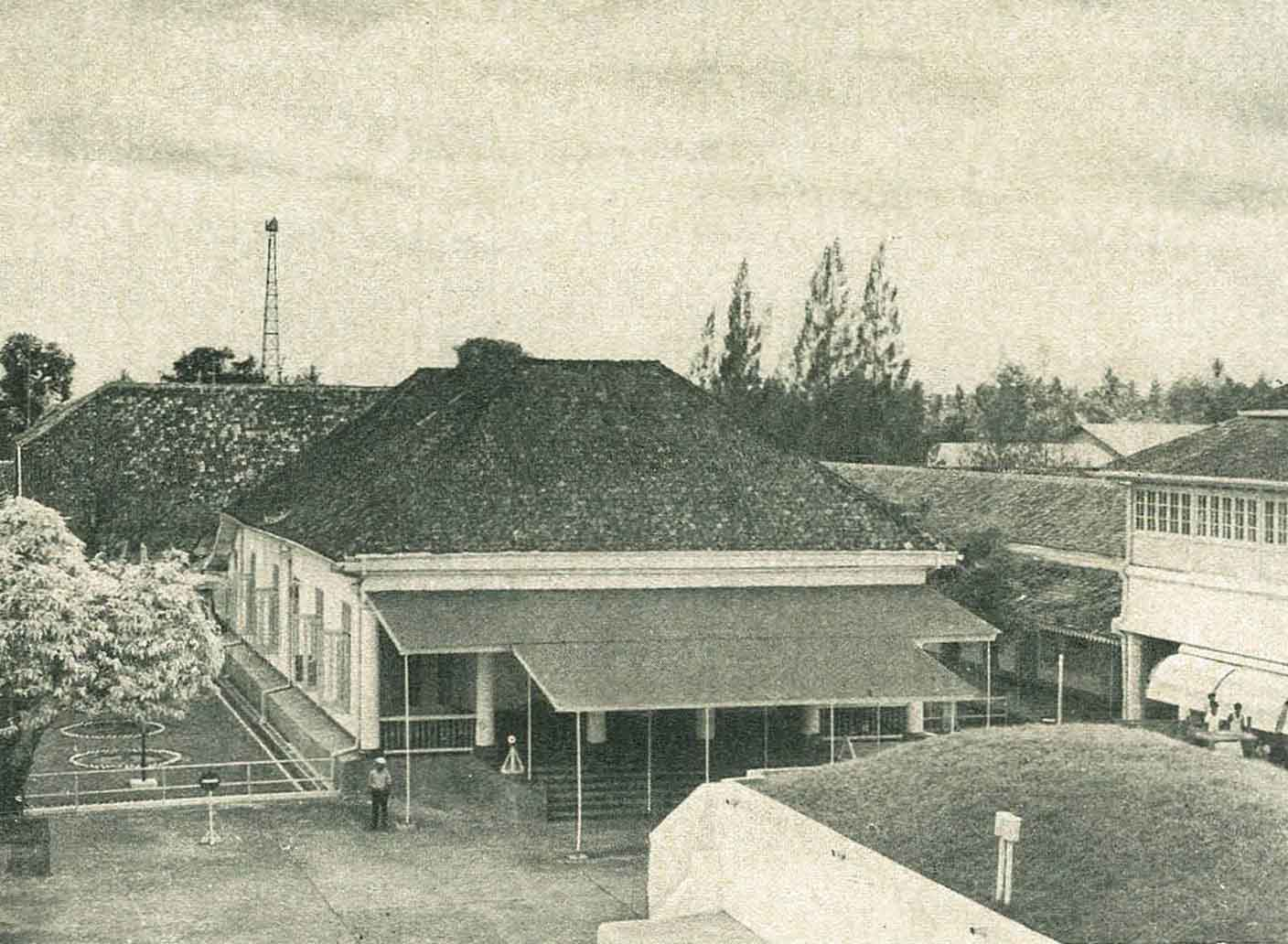 Indonesian Navy headquarters at Jl Gunung Sahari 67